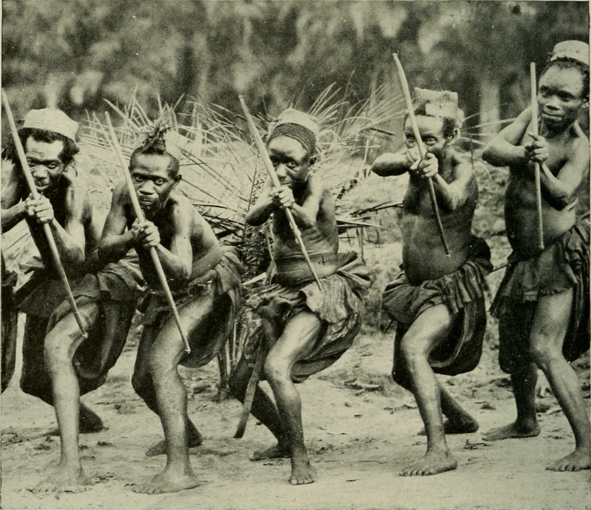 Pygmies from Nala, in the Uele District. They live by hunting, and exchange their spoils with the agricultural tribes for vegetables. Title: The American Museum journal Year: c1900-(1918) (c190s) Authors: American Museum of Natural History Subjects: Natural history Publisher: New York : American Museum of Natural History